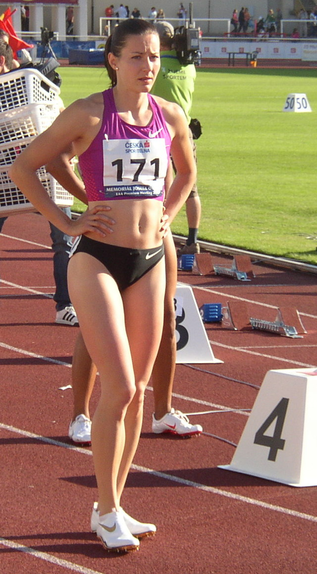 Athlete Denisa Rosolová of the Czech Republic before her start in women's 200 m run at 17th edition of the Josef Odložil Memorial (EAA Premium Meeting, Na Julisce Stadium, Prague, Czech Republic, 14 June 2010). Rosolová finished third in 23.38 s.